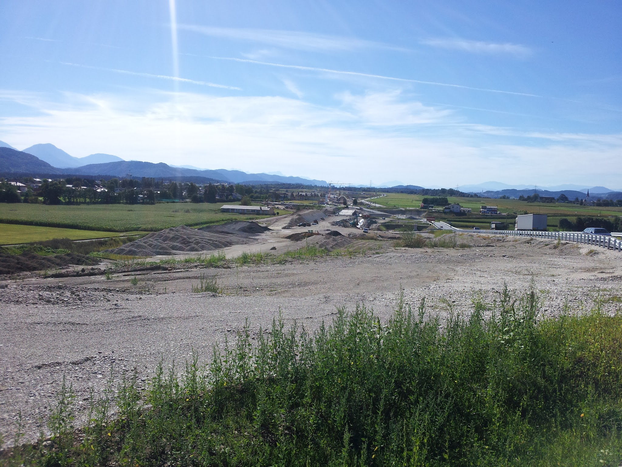 Construction site of the Koralm Railway at Kühnsdorf, Carinthia.